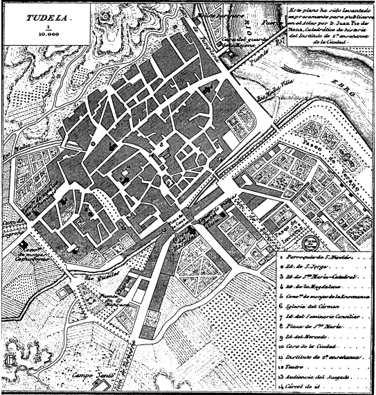 Plane of Tudela in 1861, by Francisco Coello cartographer.